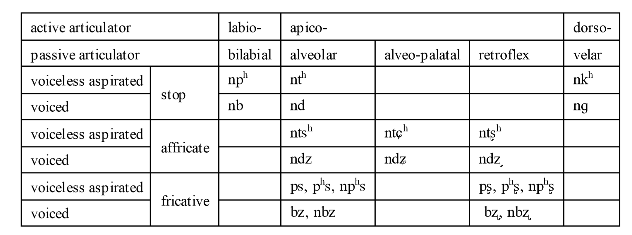 table of cluster initial sounds in Ersu